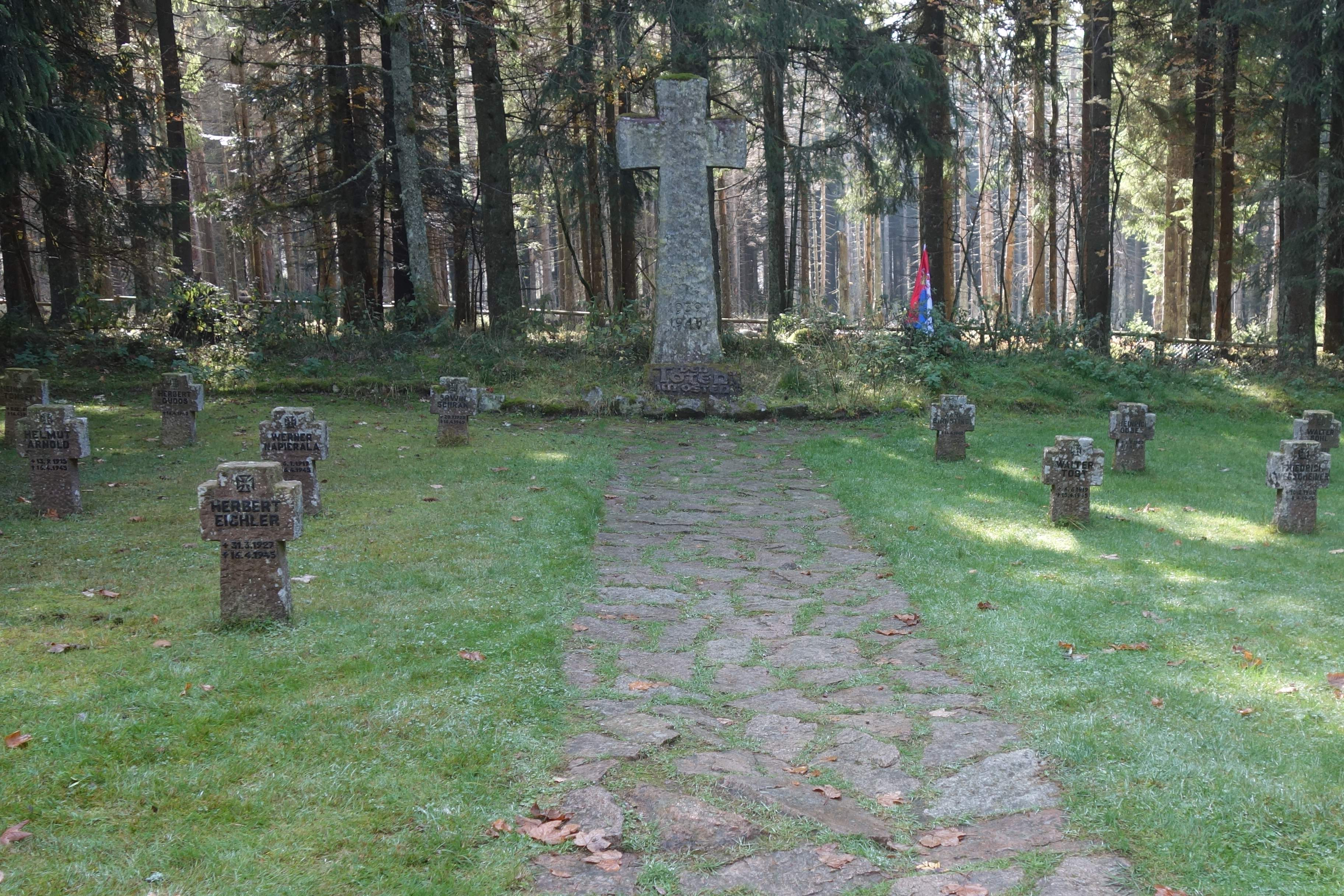 Cemetery near Brocken, Harz (Germany)